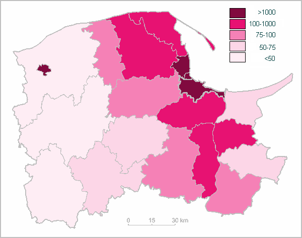 Pomeranian voivodeship population density by counties 2005